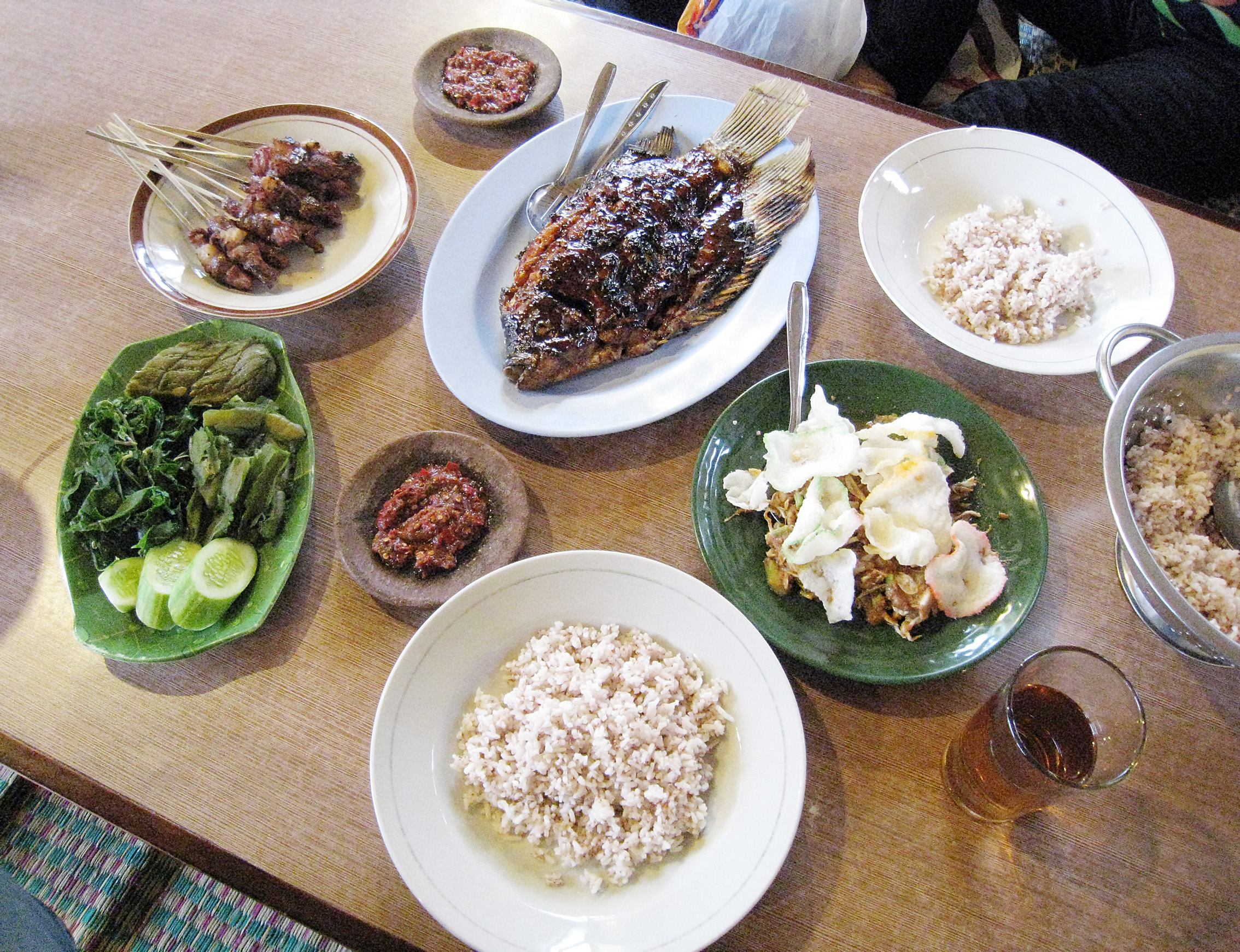 Typical traditional Sundanese cuisine at Laksana restaurant, Sangkanhurip, Kuningan, West Java. Red rice with Sate Kambing (goat/mutton satay), Lalab Sambel (raw vegetables with sambal), Grilled Gourami, and Karedok (raw vegetables in peanut sauce), and tea. Dine in Lesehan-style (sit on the mat).